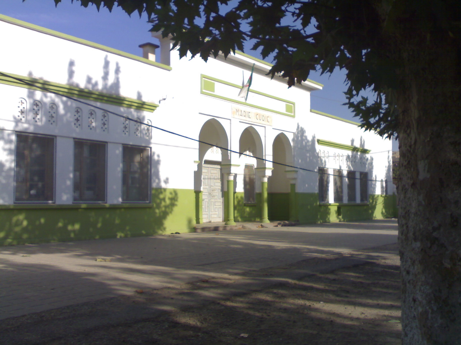 Mohammadia, Mascara Ville en Algérie